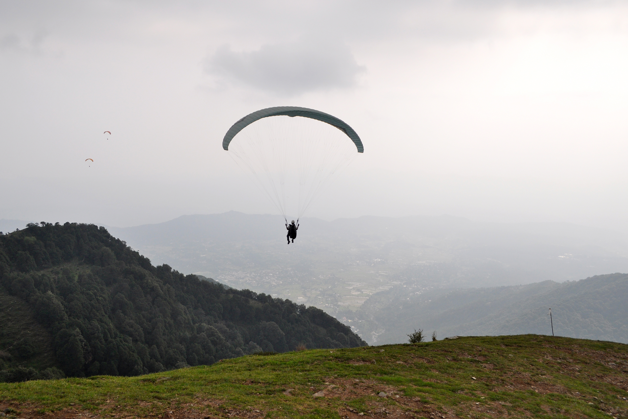 Paragliding sit at Billing near Bir in Himachal Pradesh, India